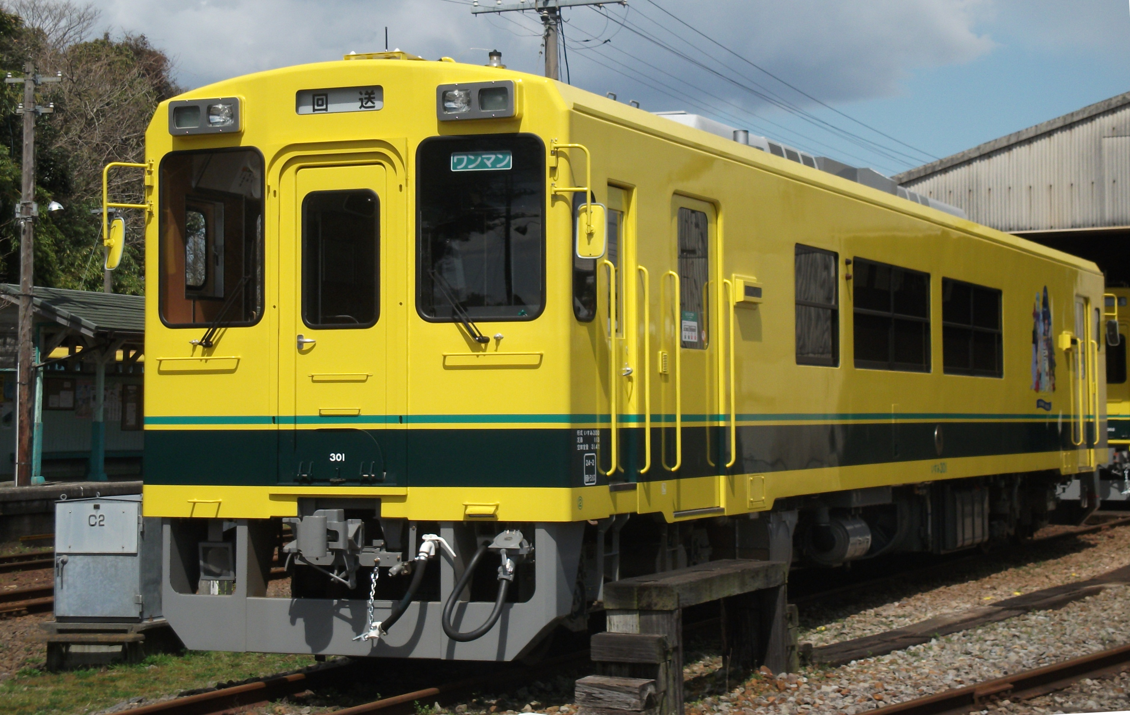 Isumi Railway Isumi Class 300 DMU car 301 at Otaki Station